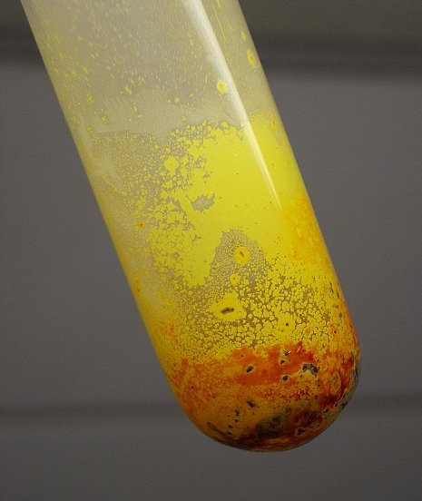 Phosphorus pentabromide formed by reaction of red phosphorus with bromine